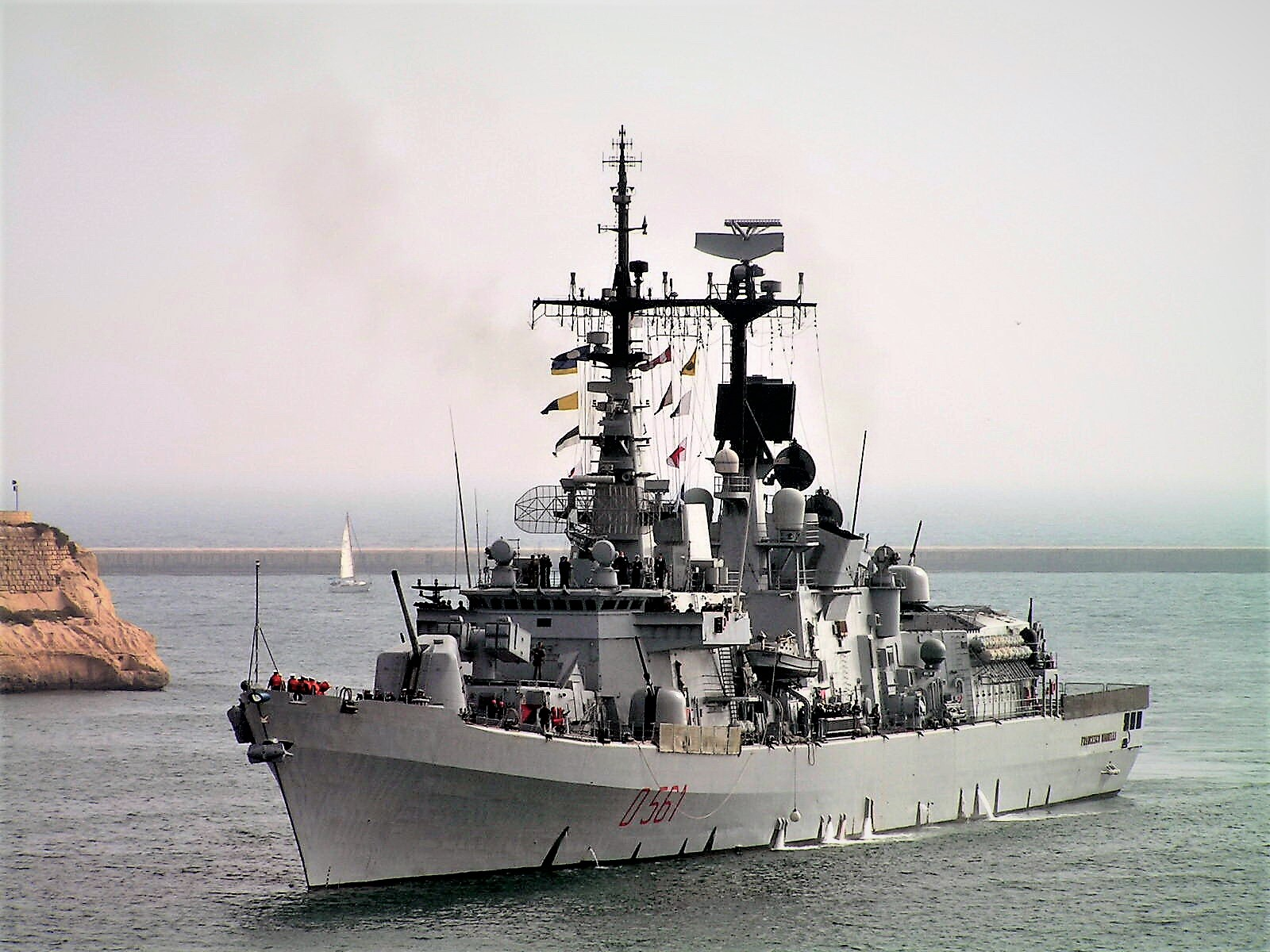 The Italian guided-missile destroyer Francesco Mimbell (D 561) at La Valletta, Malta.